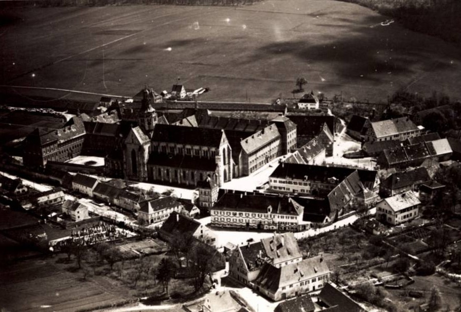 A bird's view of the former Imperial Abbey of Kaisersheim (Kaisheim) taken from an airship, 1930.